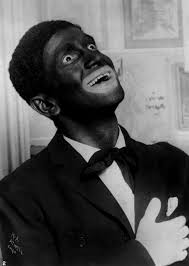 This is Al Jolson who they got the inspiration from